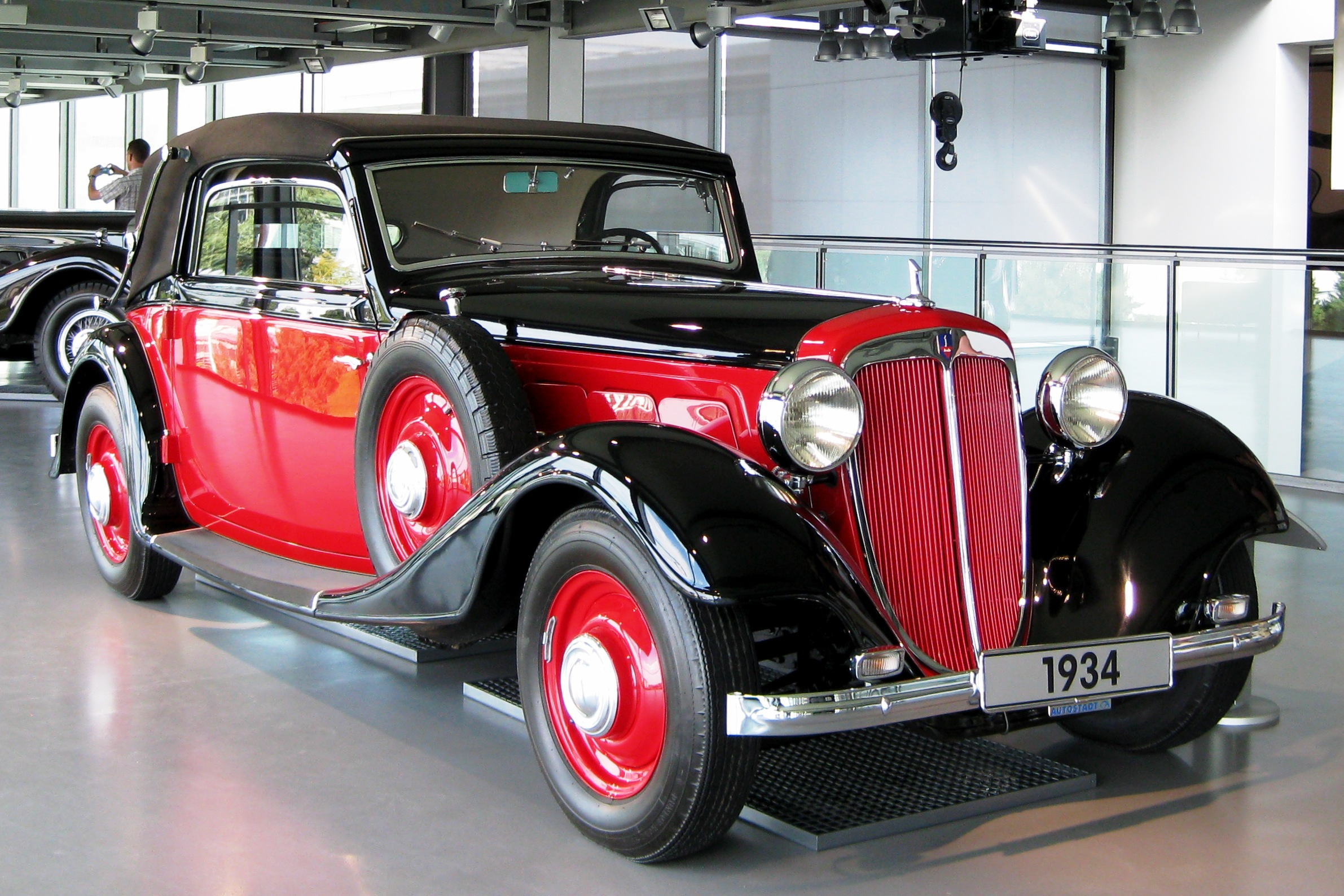 Audi Front UW220